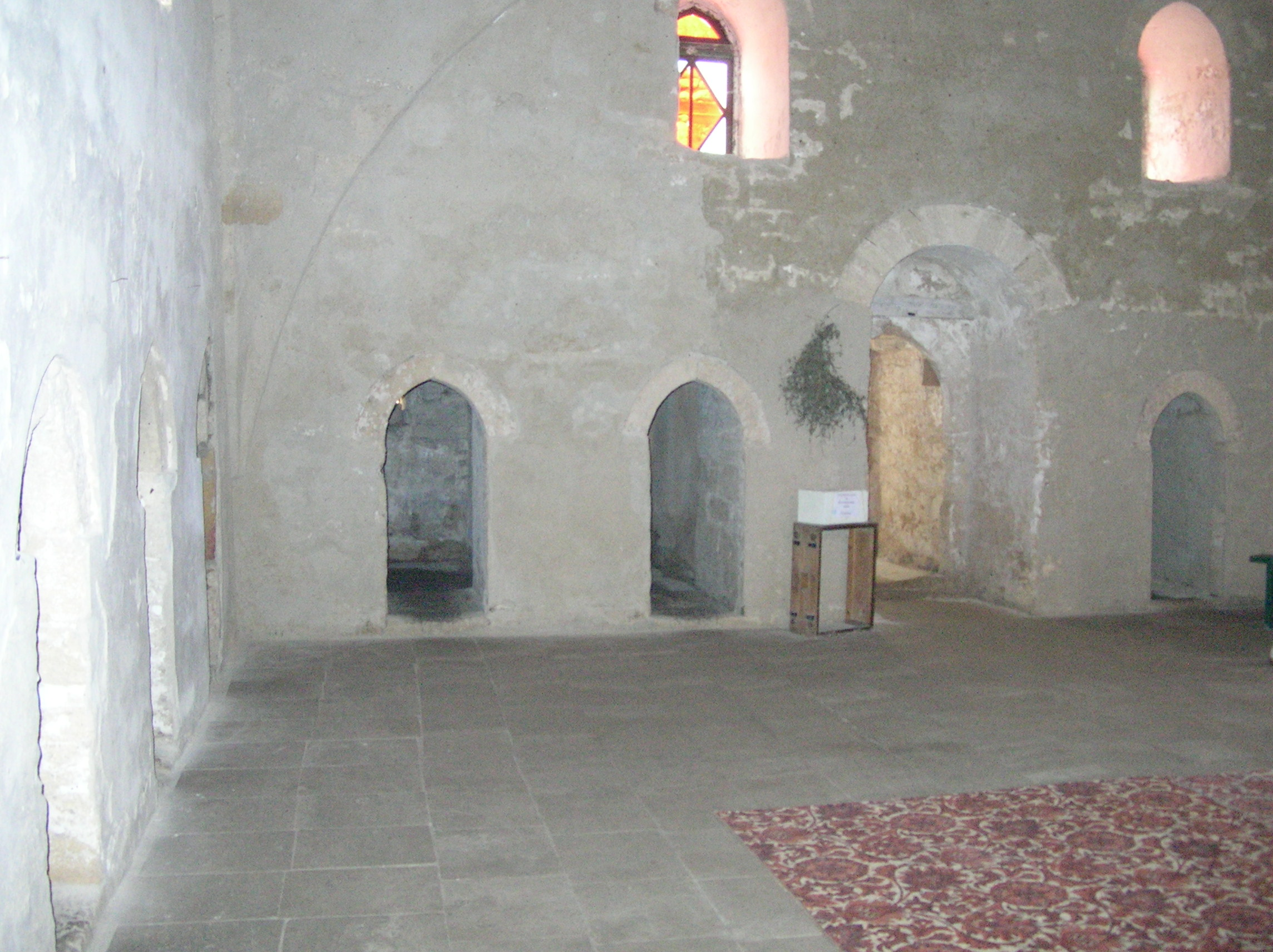 Hall of the tekke of dervishes in Evpatoria